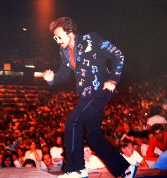 Professional wrestling manager Jimmy Hart